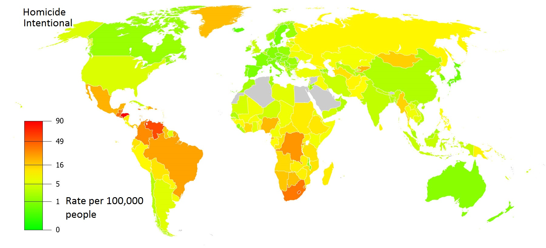 Homicide rate per 100,000 population worldwide, for 2012 Gray color: data not available Homicide rate does not include manslaughter, does not include deaths from wars (international or internal civil war), and does not include socio-political terror attack related deaths. The rate only includes intentional homicide where ‘‘unlawful death is purposefully inflicted on a person by another person”. Source: United Nations Office on Drugs and Crime